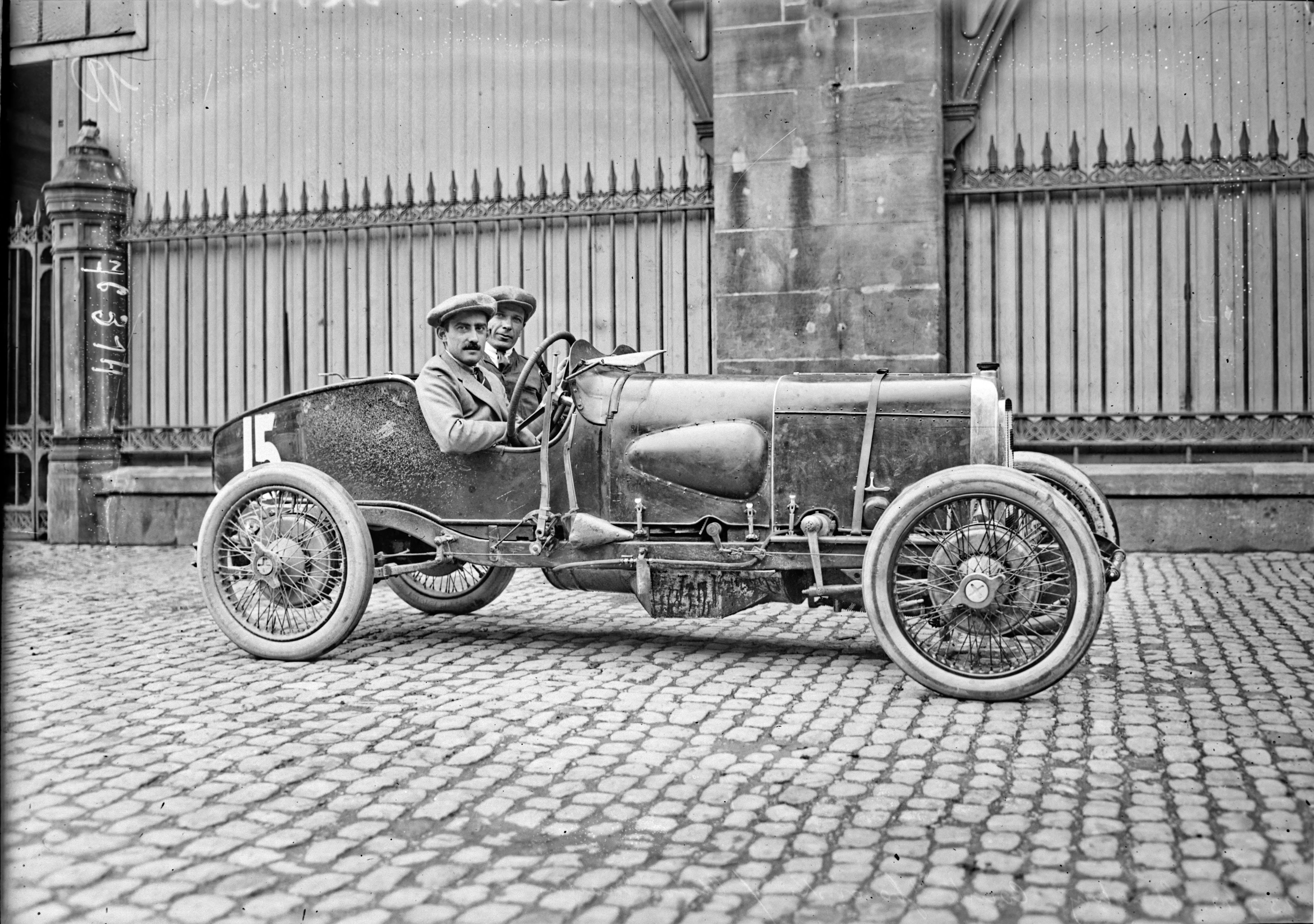 Louis Zborowski at the 1922 French Grand Prix